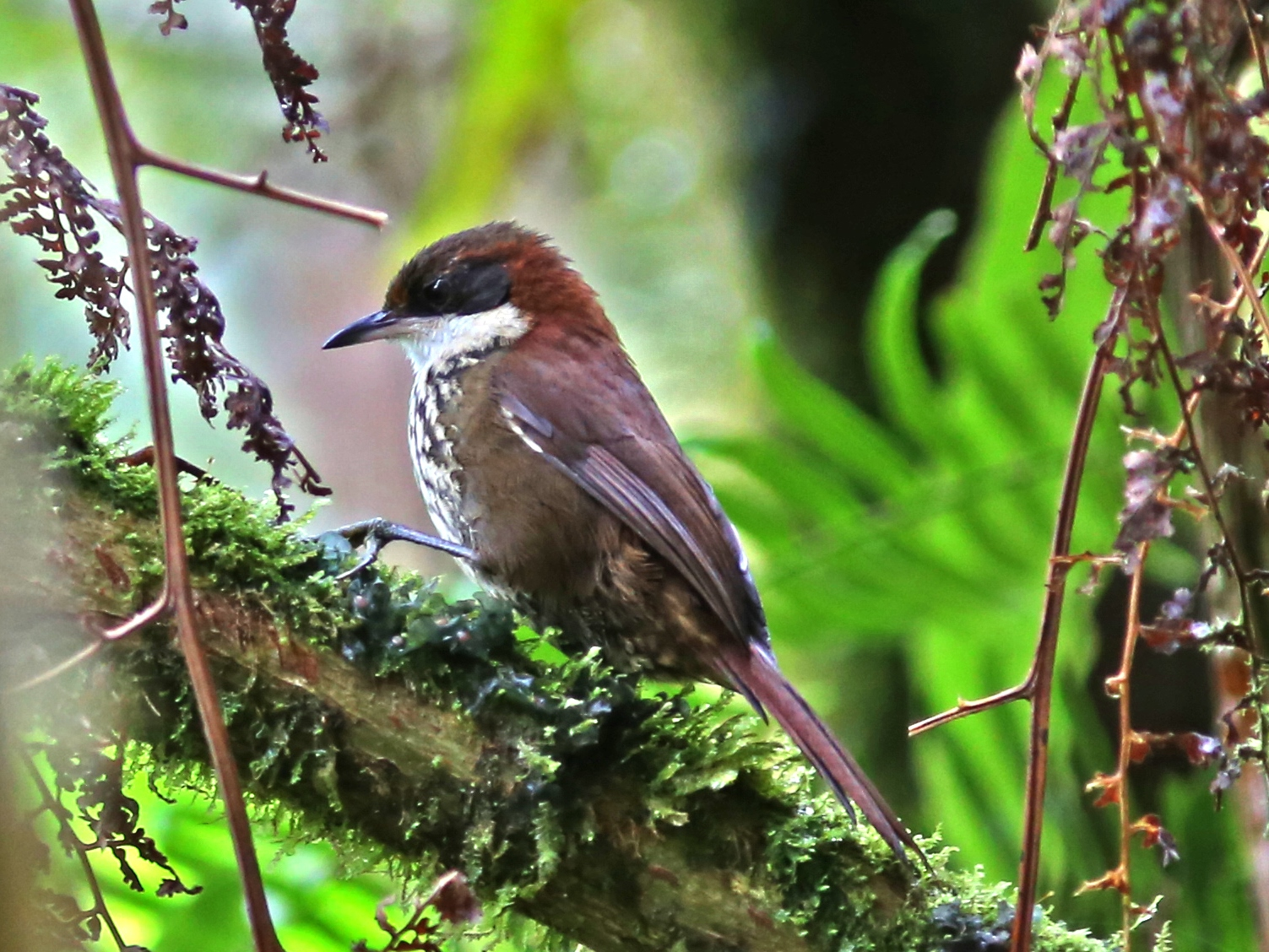 Roraiman Barbtail; Gran Sabana, Venezuela